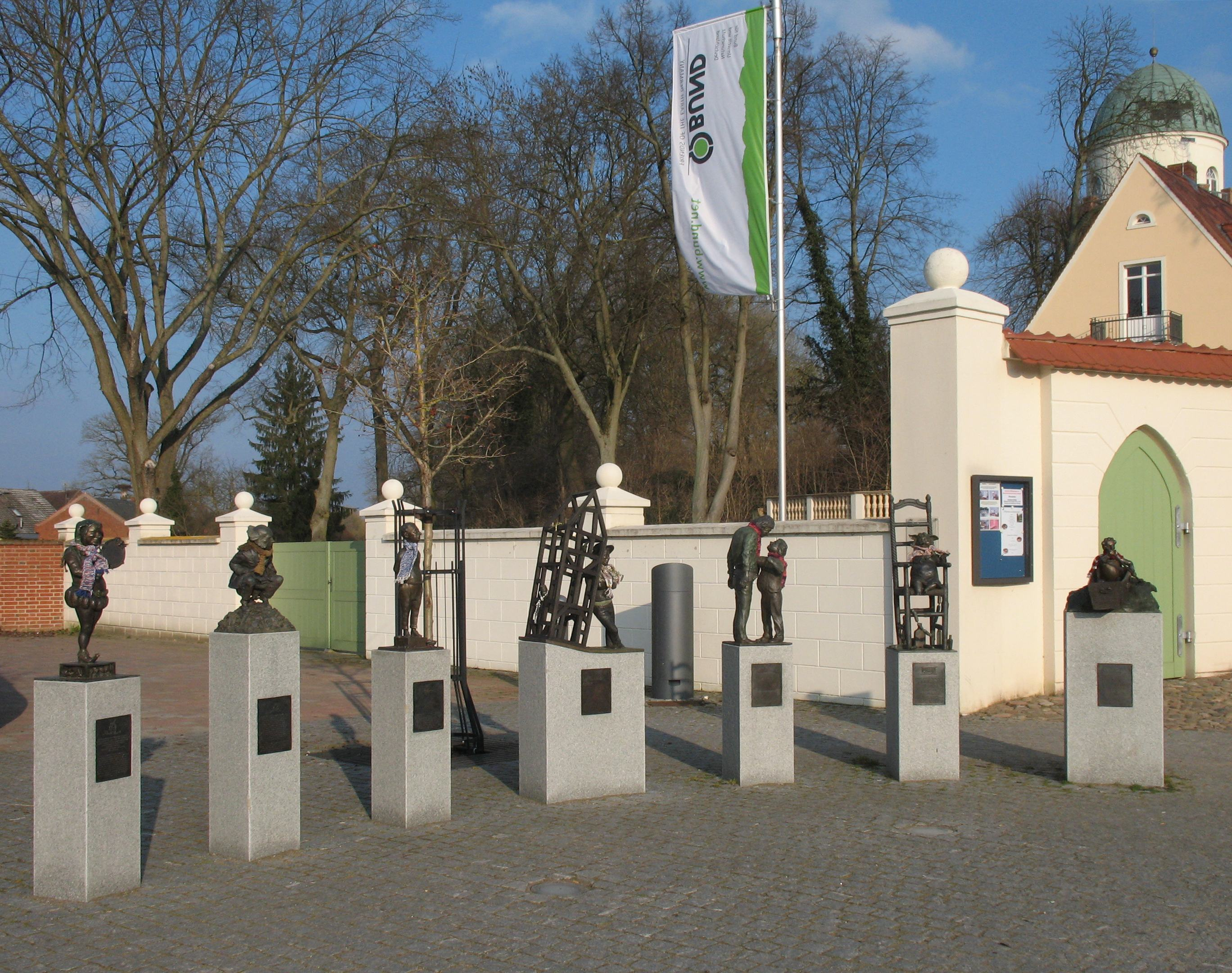 Sculptures "Jester's licence" by Bernd Streiter in Lenzen in Brandenburg, Germany